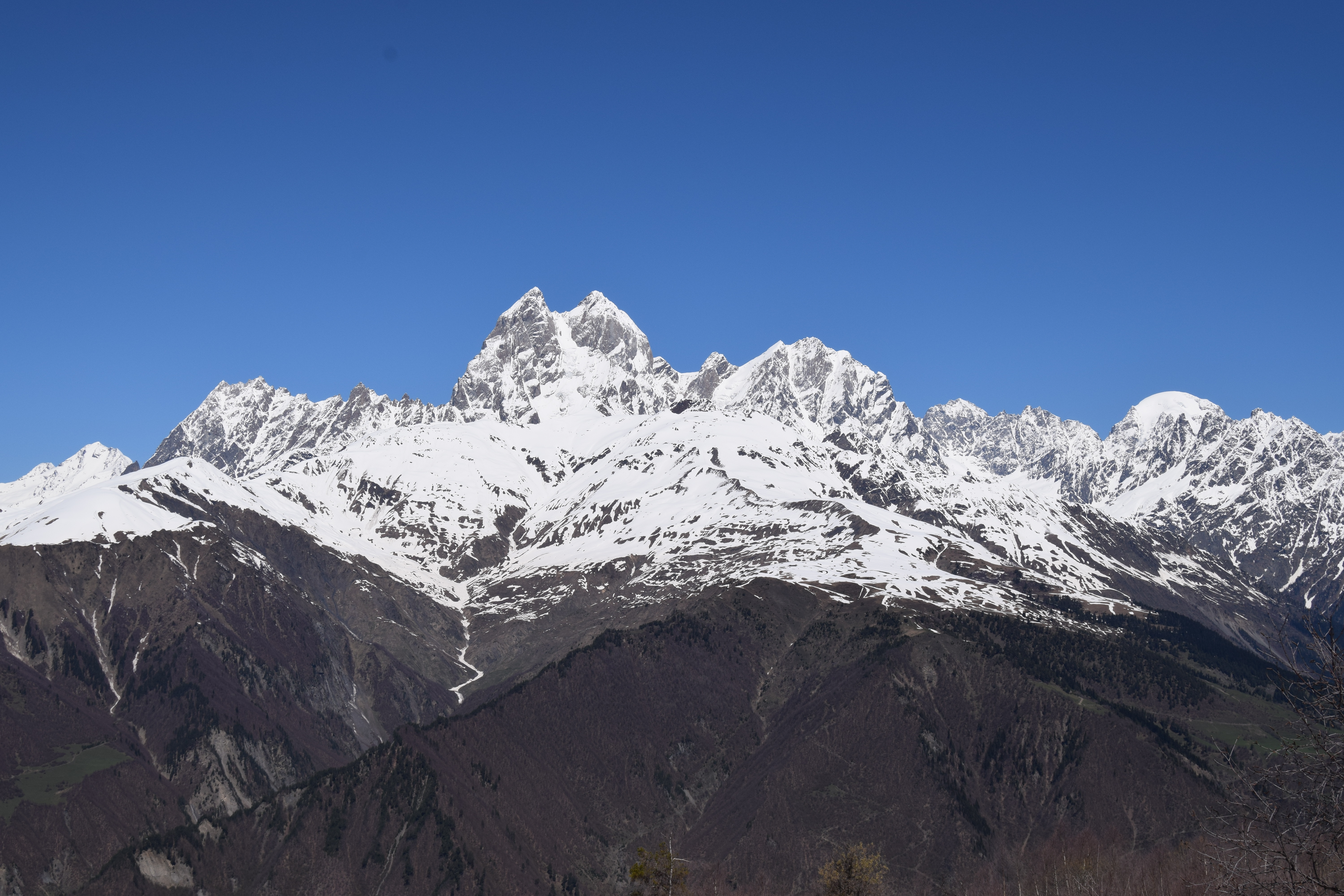 Ushba 2016 distance